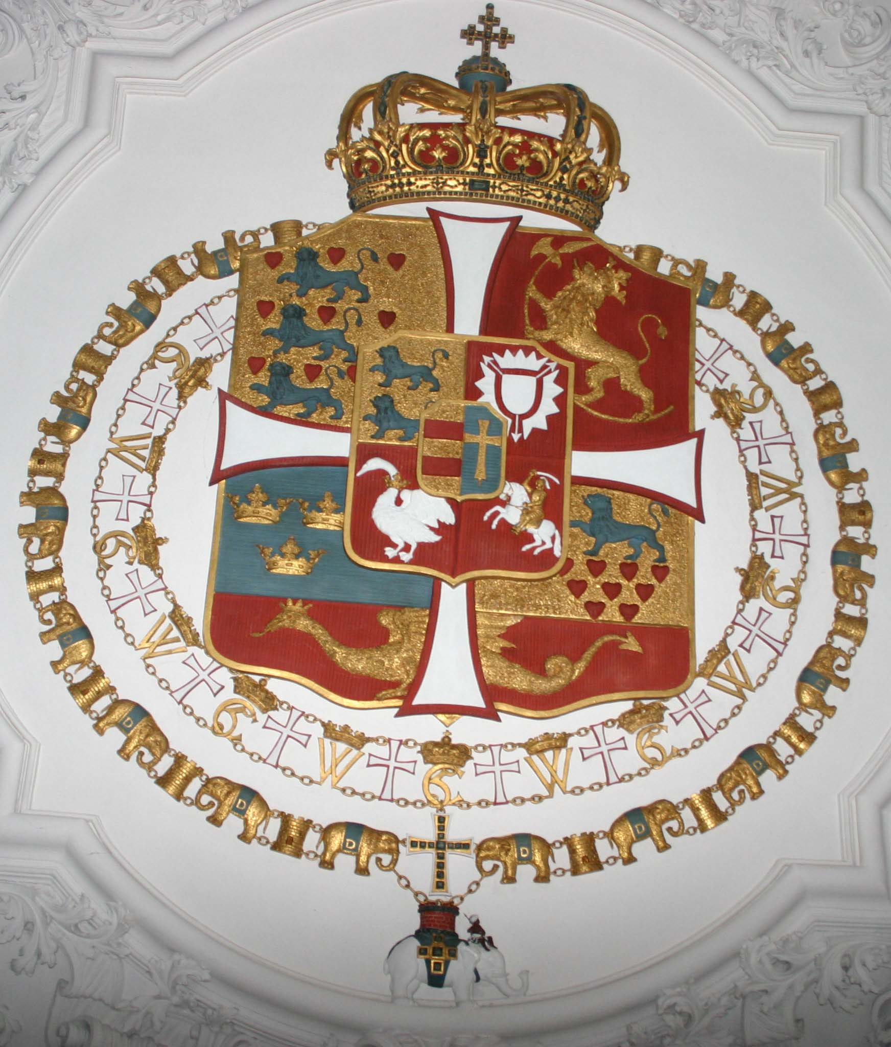 Coat of arms of Denmark, on the ceiling of the Long Hall in Rosenborg Castle, Denmark. The actual work of art dates from the reign of Frederick IV of Denmark (1671-1730).